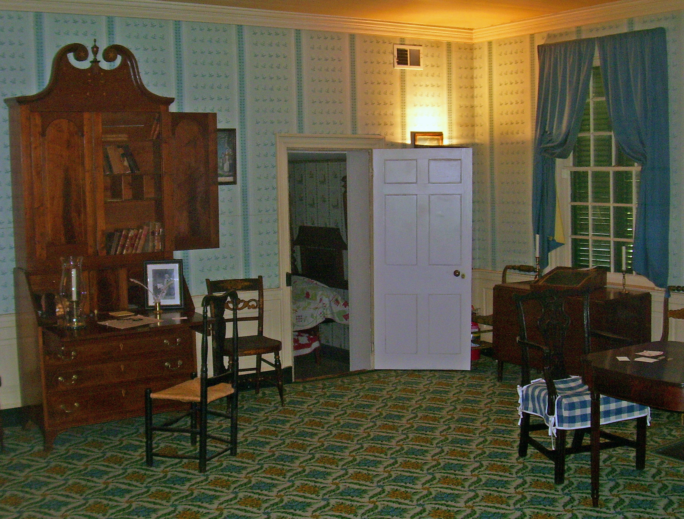 Living room at Woodville, Heidelberg, PA, USA